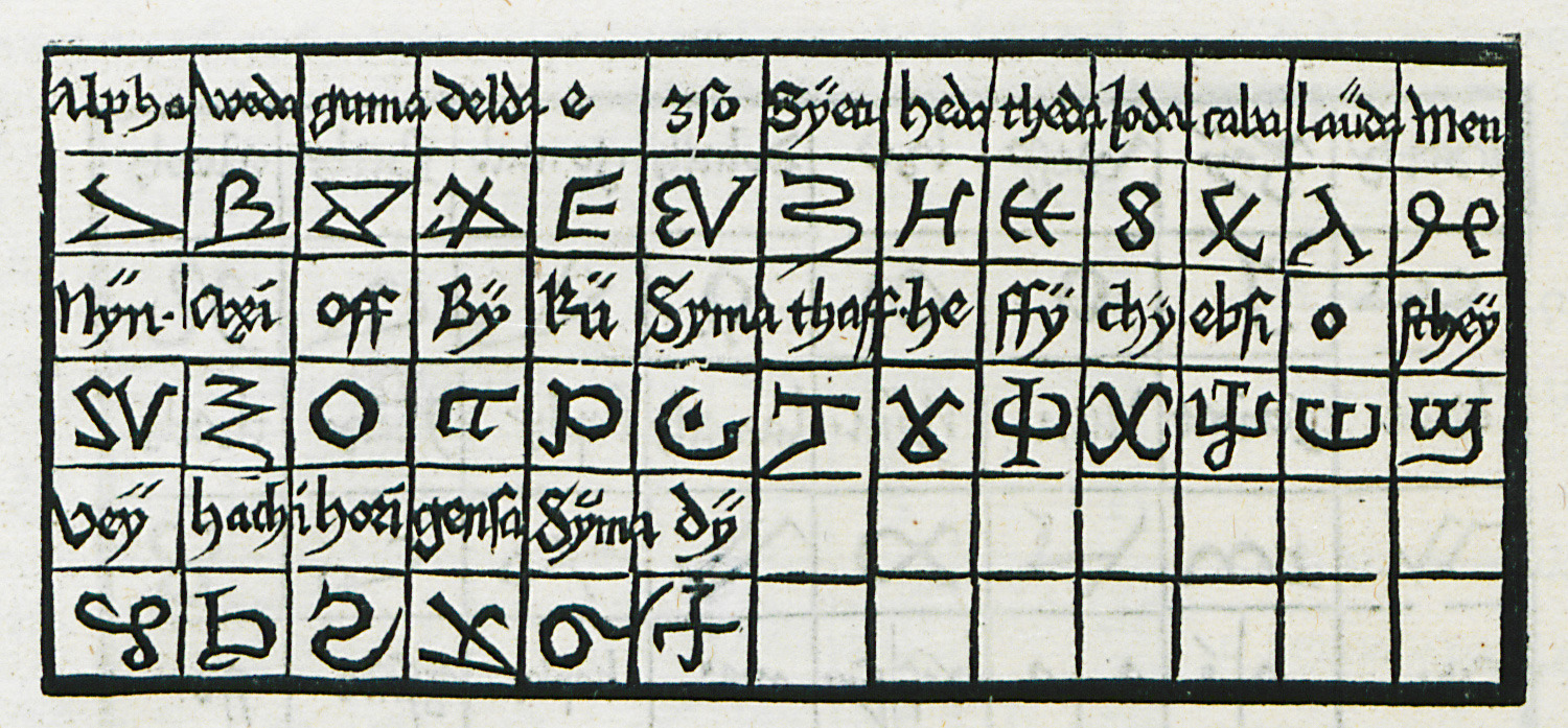 Bernhard von Breydenbach. Peregrinationes in Terram Sanctam, Speyer, 1486 (1st ed.) / 1502 (2nd ed.).